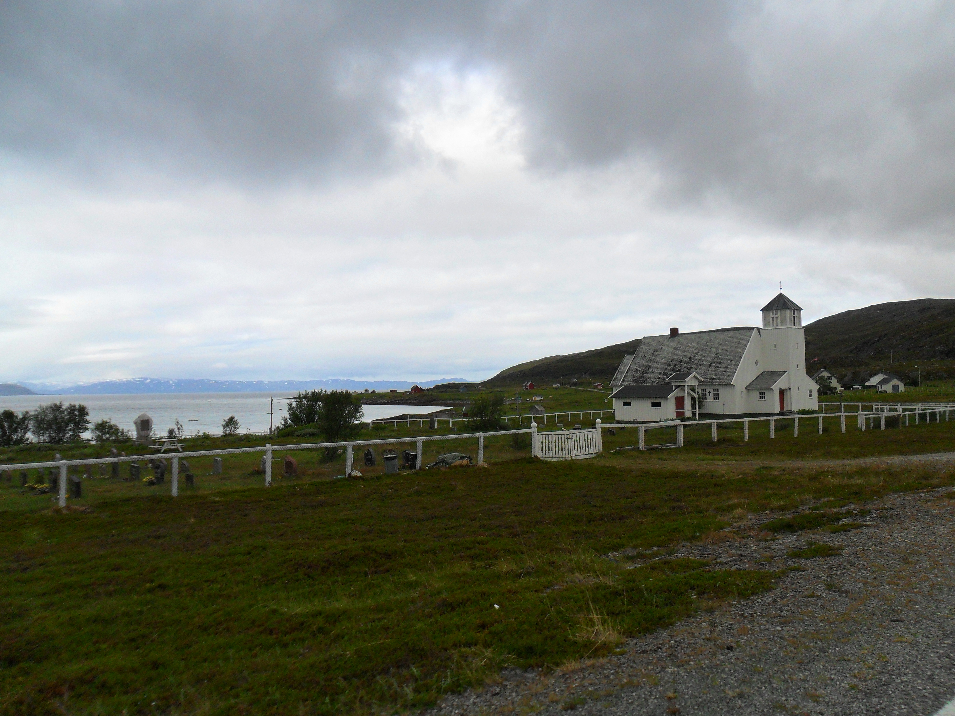 Slotten kapell, Slotten kirke (church) from 1965. Architect Rolf Harlew Jenssen.